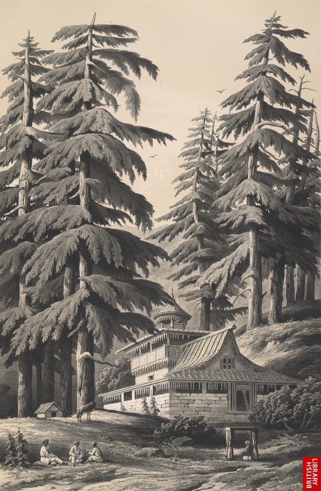 Old Hindu Temple, Shimla, Himachal Pradesh. India. 19th century. Lithograph. This sketch shows the first of the temples seen in the mountains, situated in a valley of "noble cedars" about two miles from Simla and about half a mile from the first of 13 waterfalls "by which the mountain torrent that flows through the valley of Simla falls into the plains".